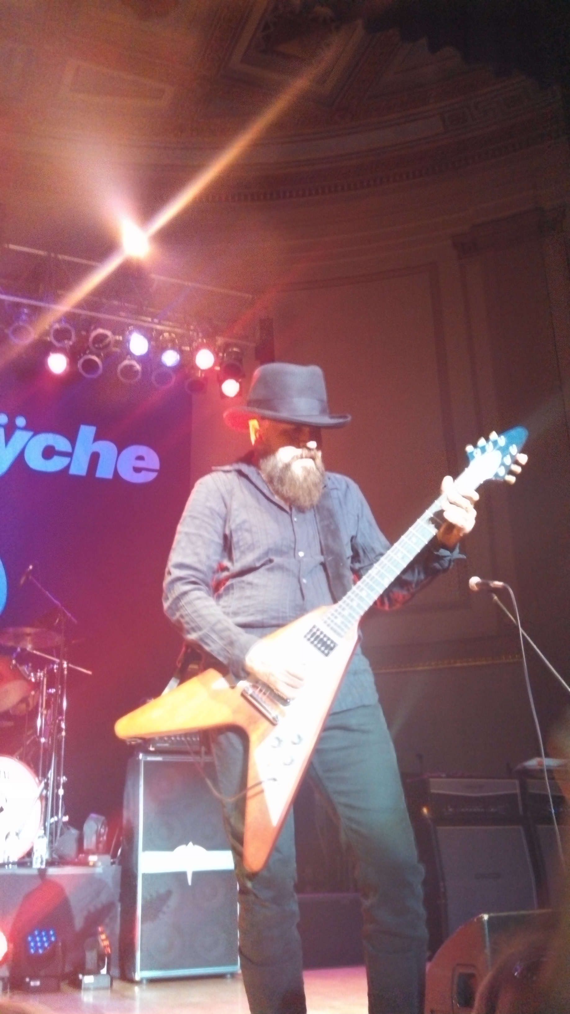 Kelly Gray performing at the War Memorial Auditorium in Nashville, TN